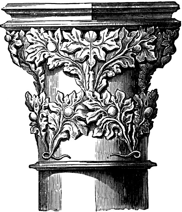 Illustration of a Byzantine capitals, from Cologne.